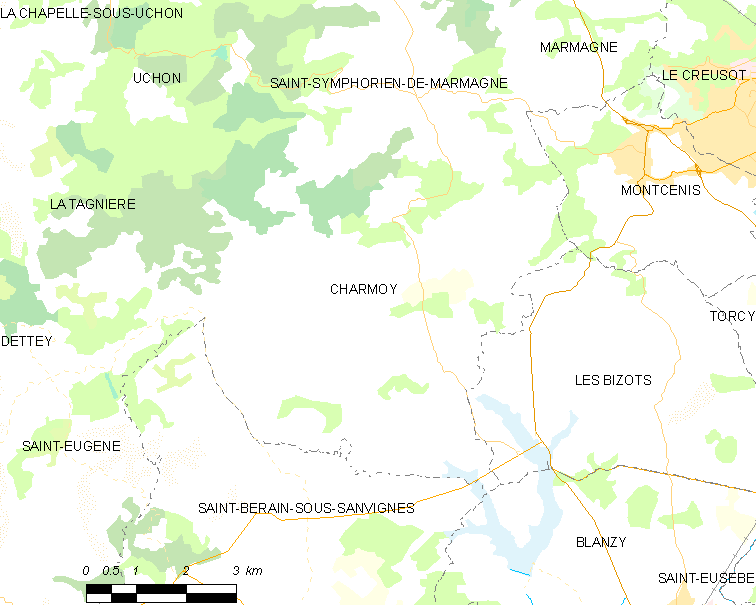 Map of French municipality